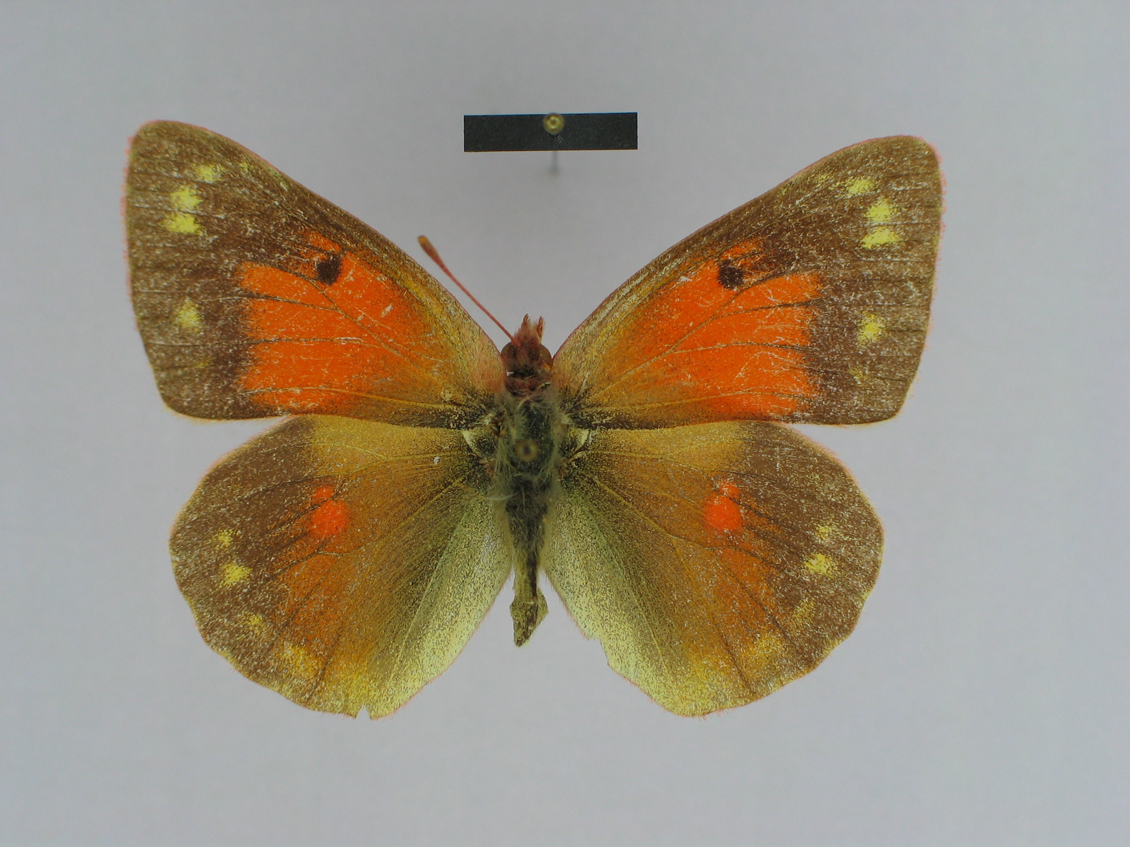 Specimen of the species Colias thisoa thisoa from the collection of the Zoological Museum of the Zoological Institute of the Russian Academy of Sciences; ♀ dorsal side; scalebar=1 cm